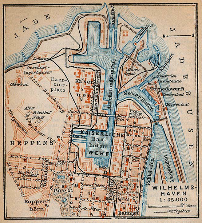 Map of Wilhelmshaven, Germany, 1910